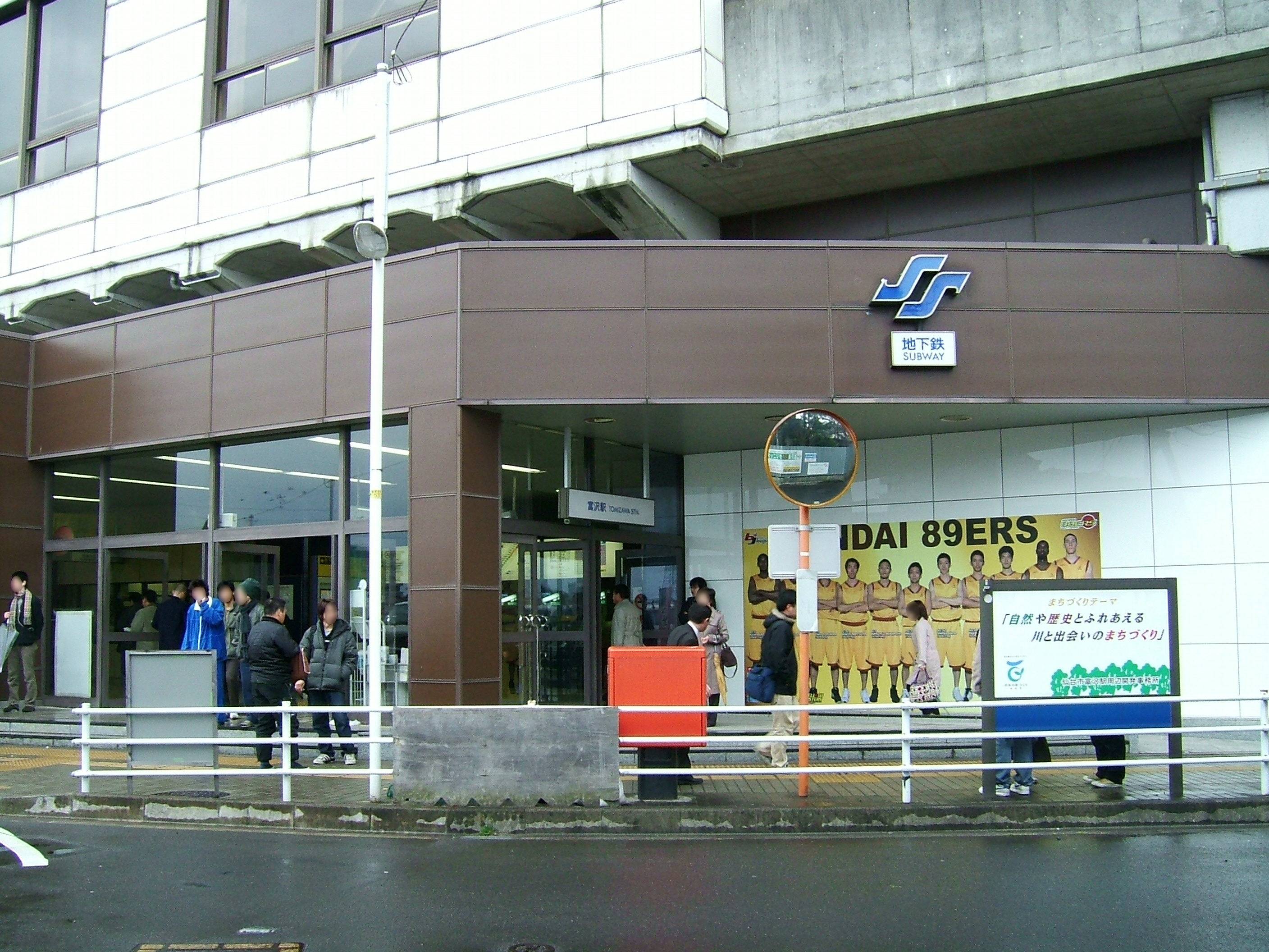 Sendai subway Nanboku Line Tomizawa Station